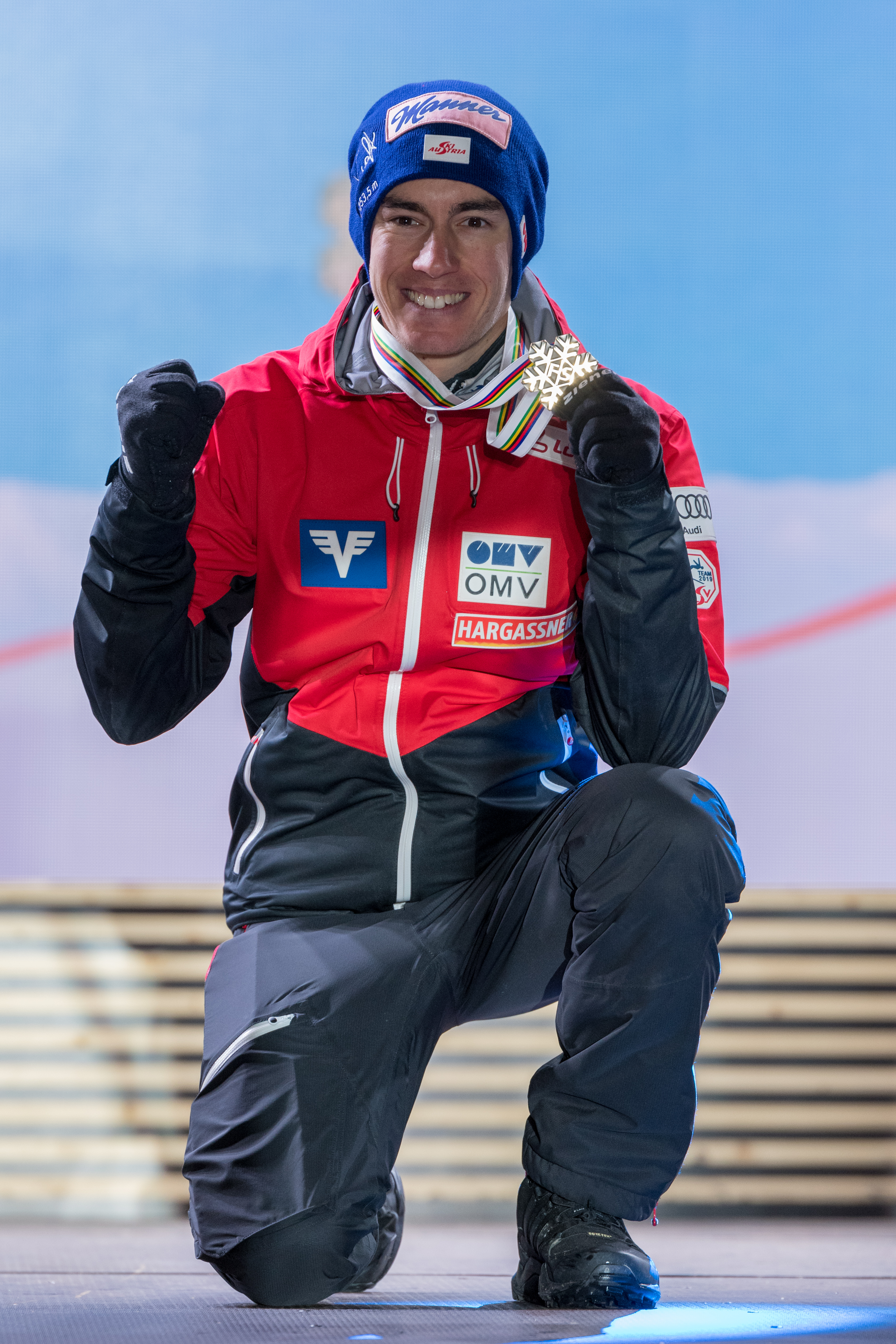 FIS Nordic Wolrd Ski Championships Seefeld 2019 - Medal Ceremony at the Medal Plaza. Picture shows Stefan Kraft (AUT)